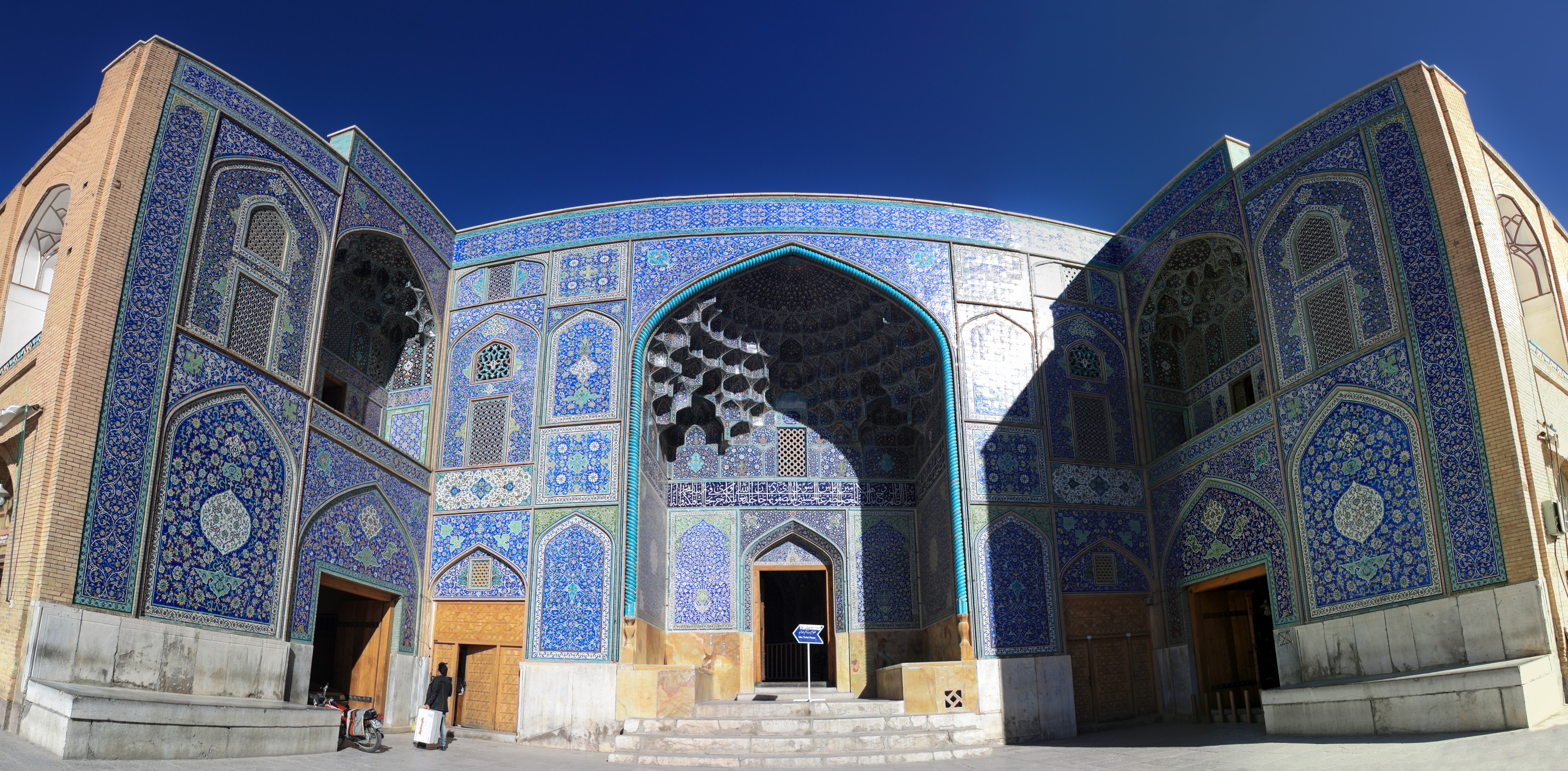 Sheikh Lotf Allah Mosque 3D Panorama